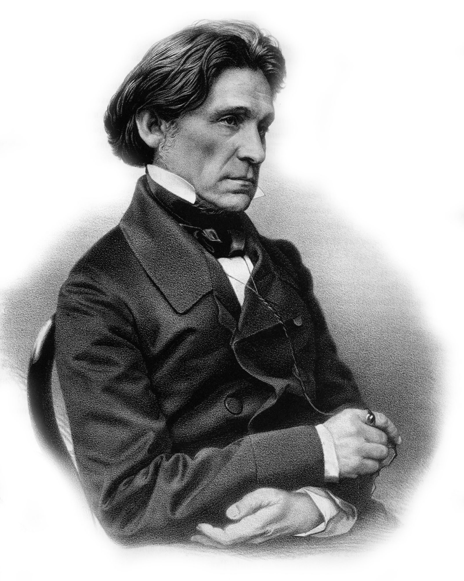 Feodor Bruni